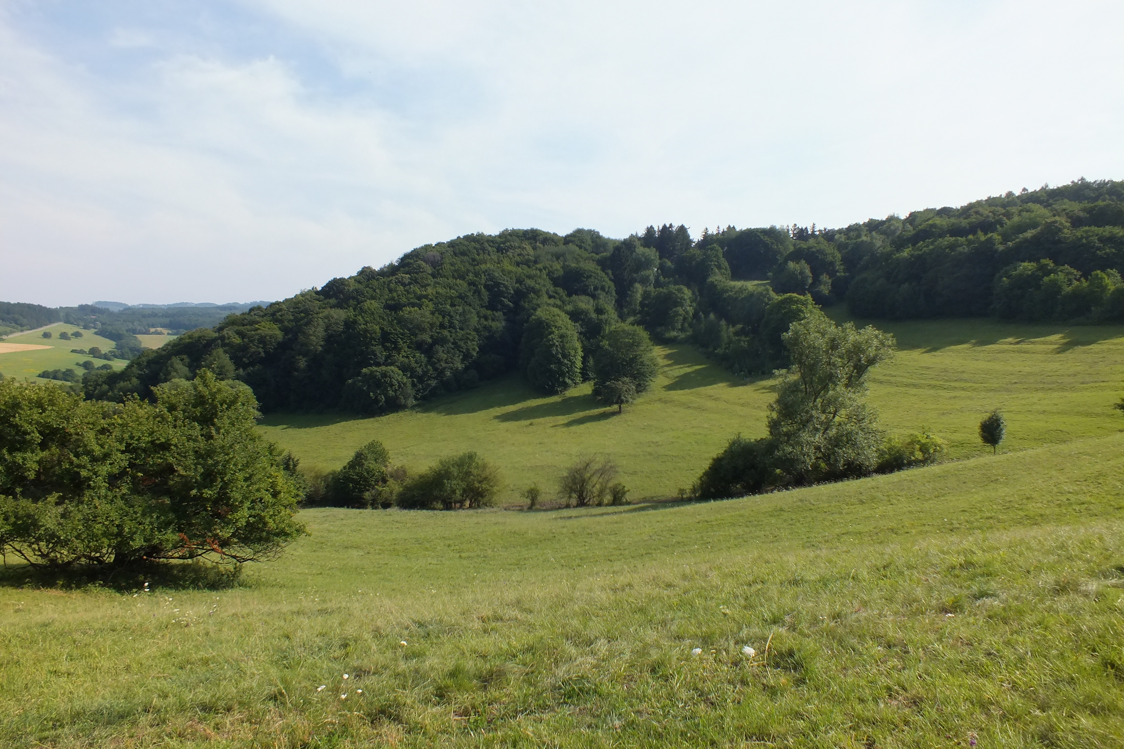 Hrádek, a promontory near the village of Komňa, the Czech Republic.